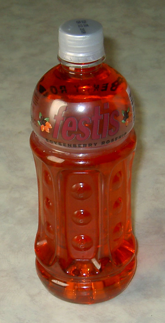 Festis Boysenberry